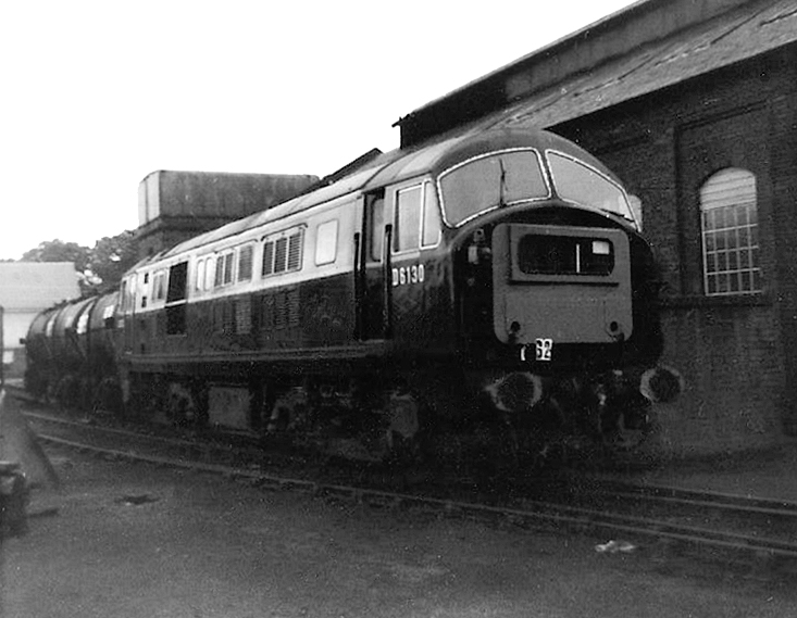 D6130 outside Aberdeen (Ferryhill) Shed